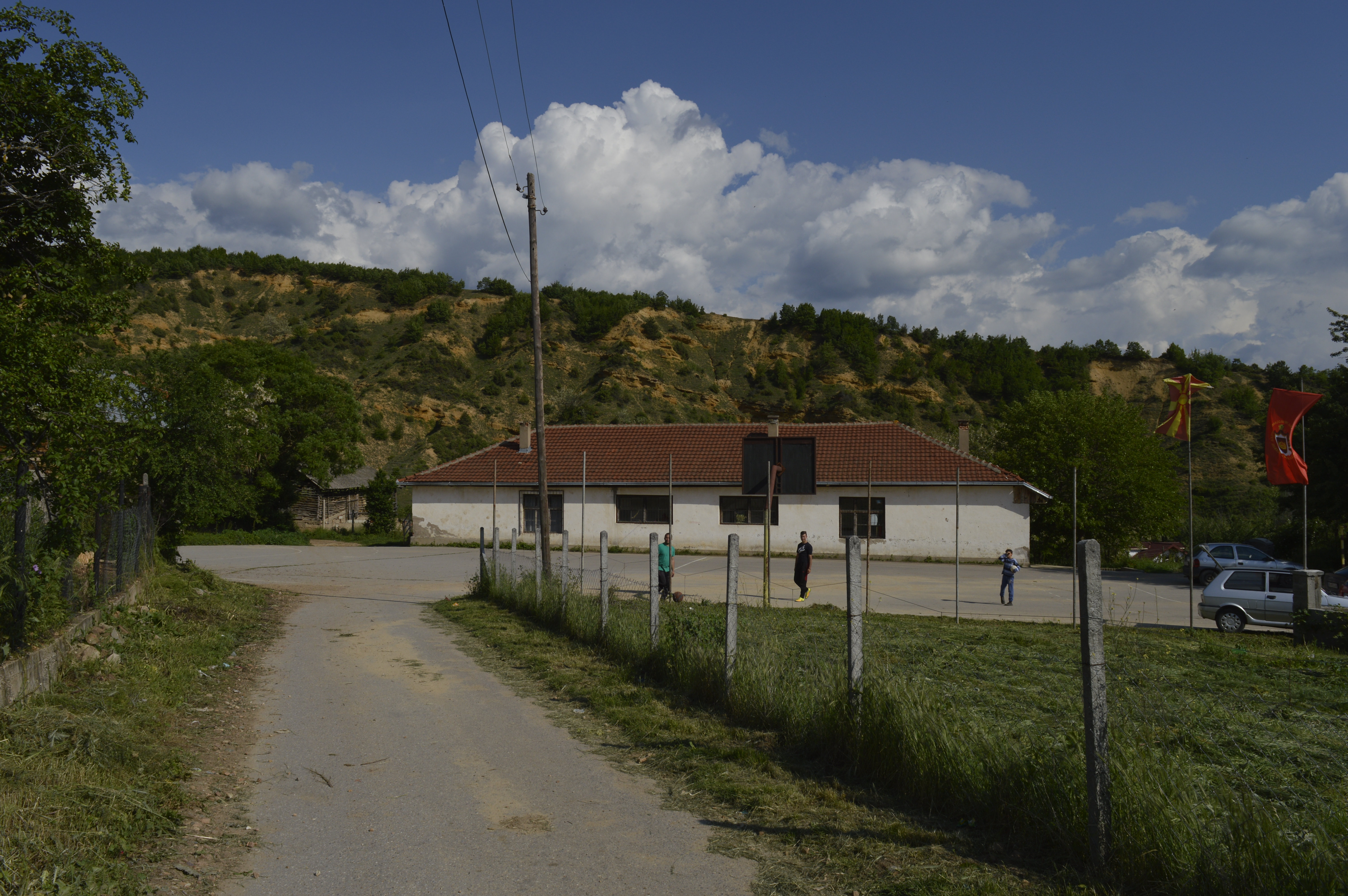 Playground in the village Stamer